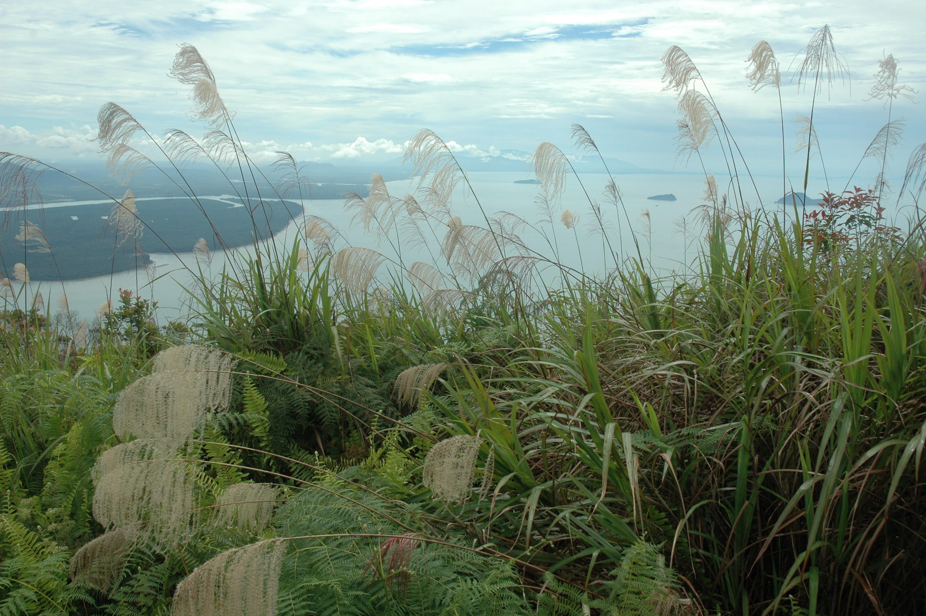 The panoramic view rewarding climbers who have made it to the top of Santubong Mountain.